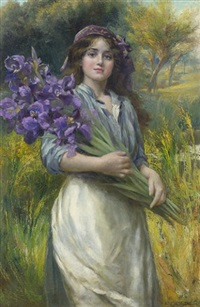 Iris